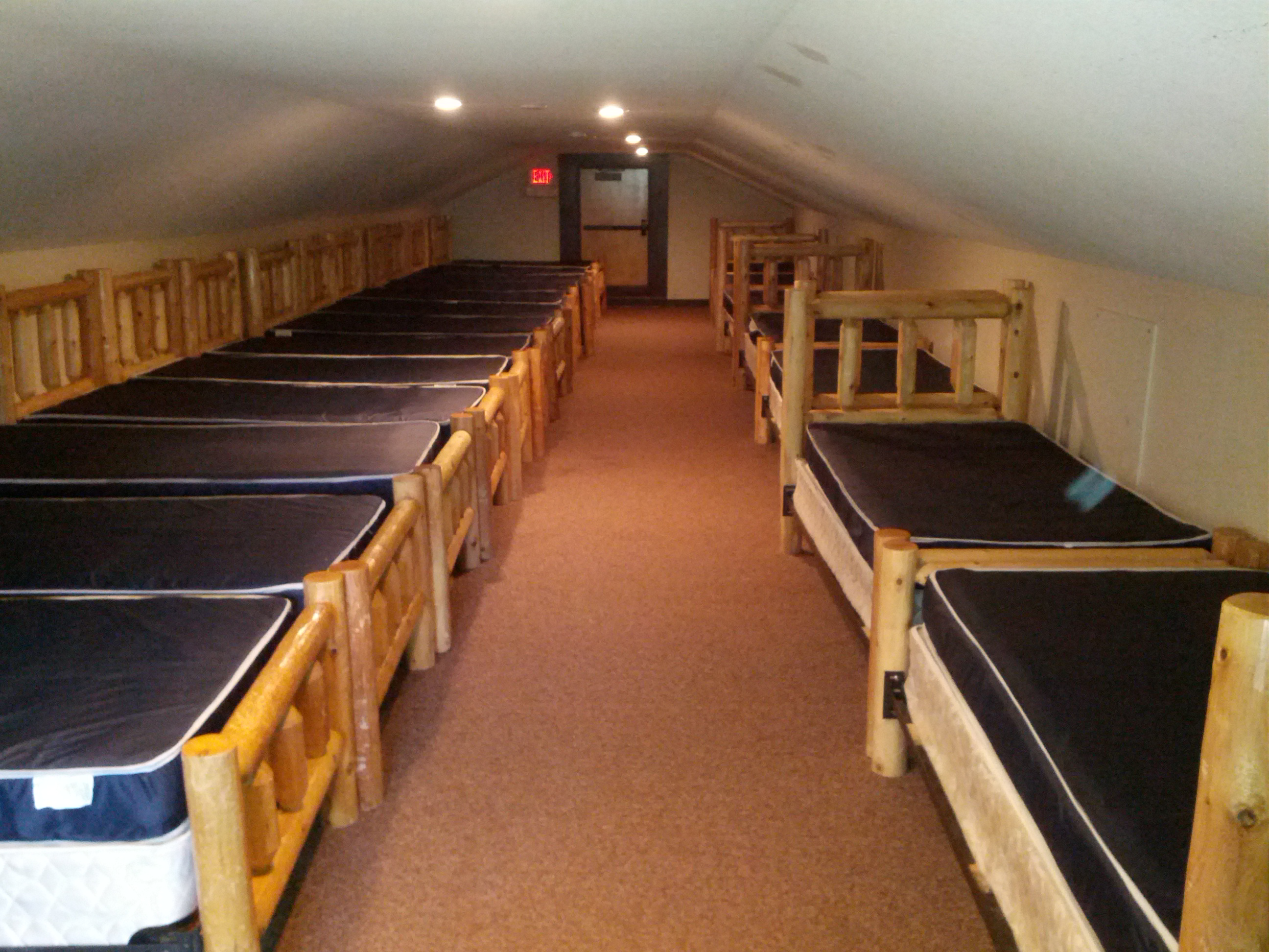 Hynds Lodge upstairs contains about 20 beds